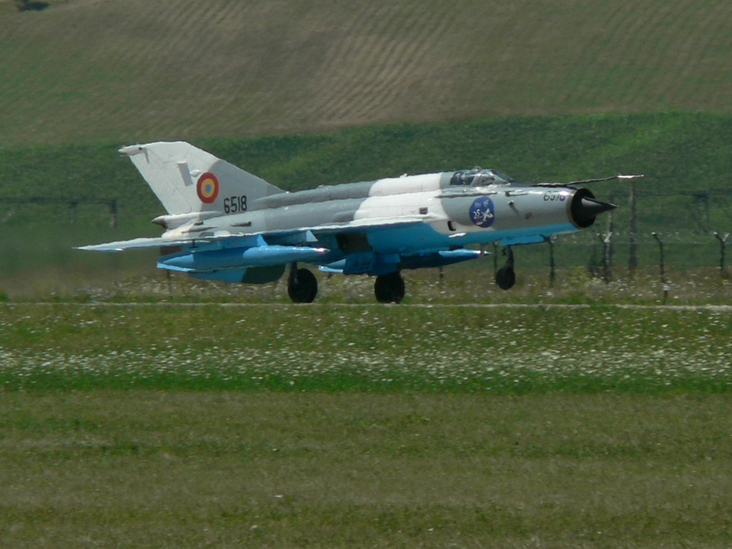 MiG-21 LanceR 'C' 6518 taking off from the RoAF 71st Air Base